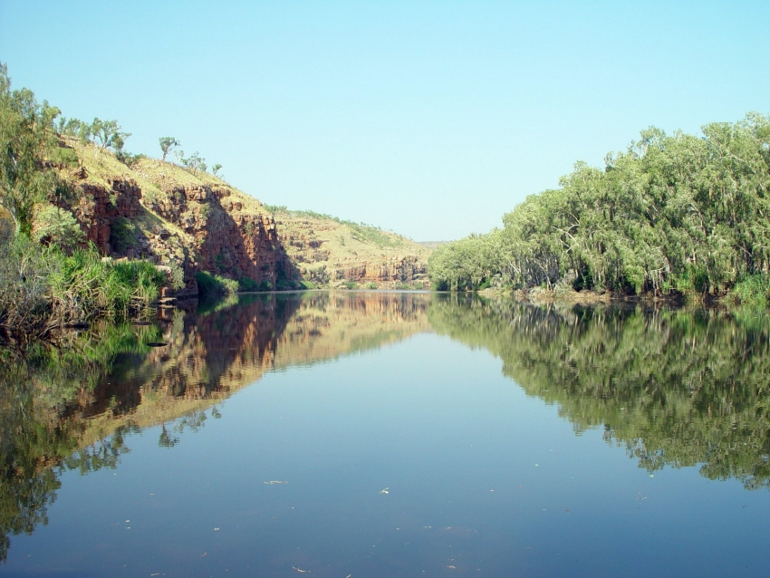 Chamberlain river 170503